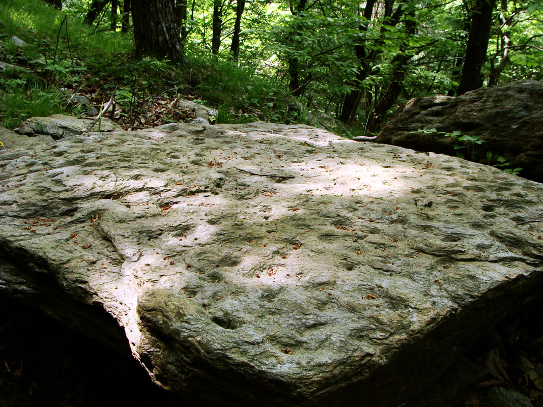 This is a cup marked stone near Menolzio, Mattie municipality. Susa's Valley is in Piedmont, north western Italy and it's full of engraved stones and megaliths.